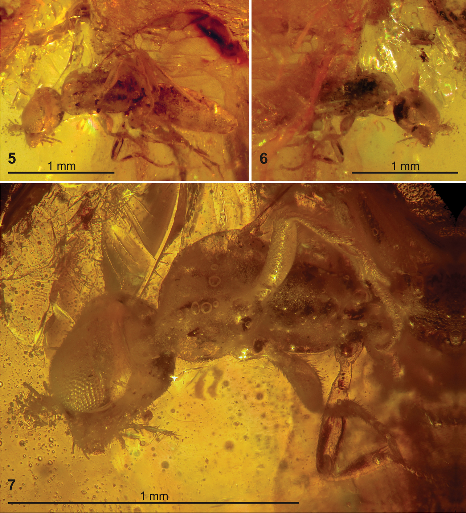 New Jersey amber containing specimens of Plumalexius rasnitsyni sp. nov. 5–7 Specimen NJ-695, holotype 5 Ventrolateral view 6 Dorsolateral view 7 Detail, ventrolateral view.